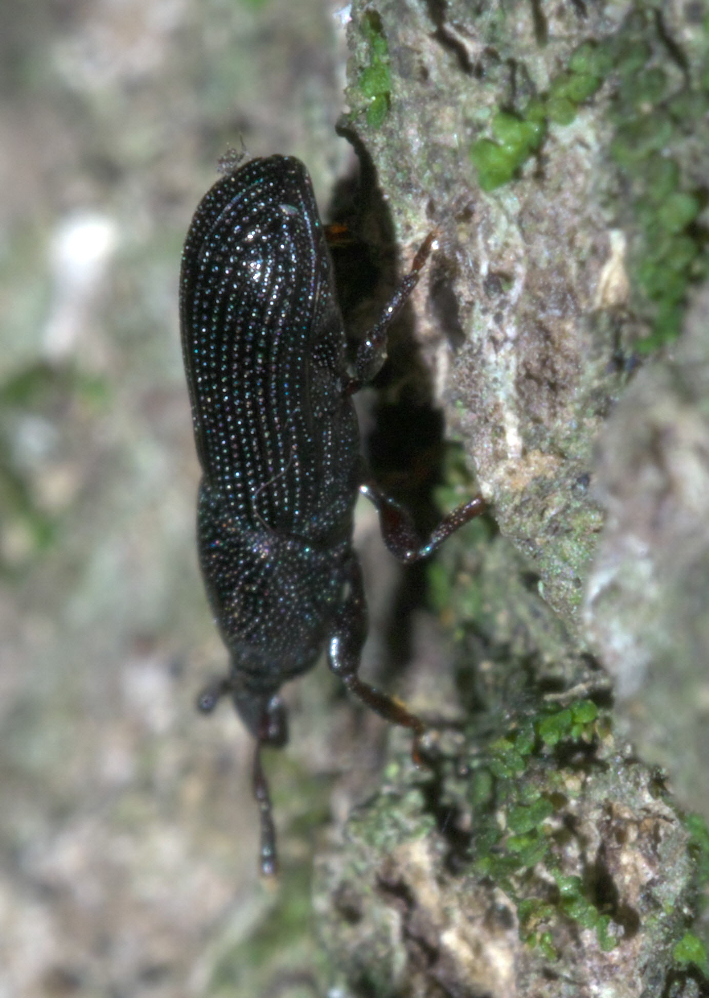 Cossonus, Family: Snout and Bark Beetles